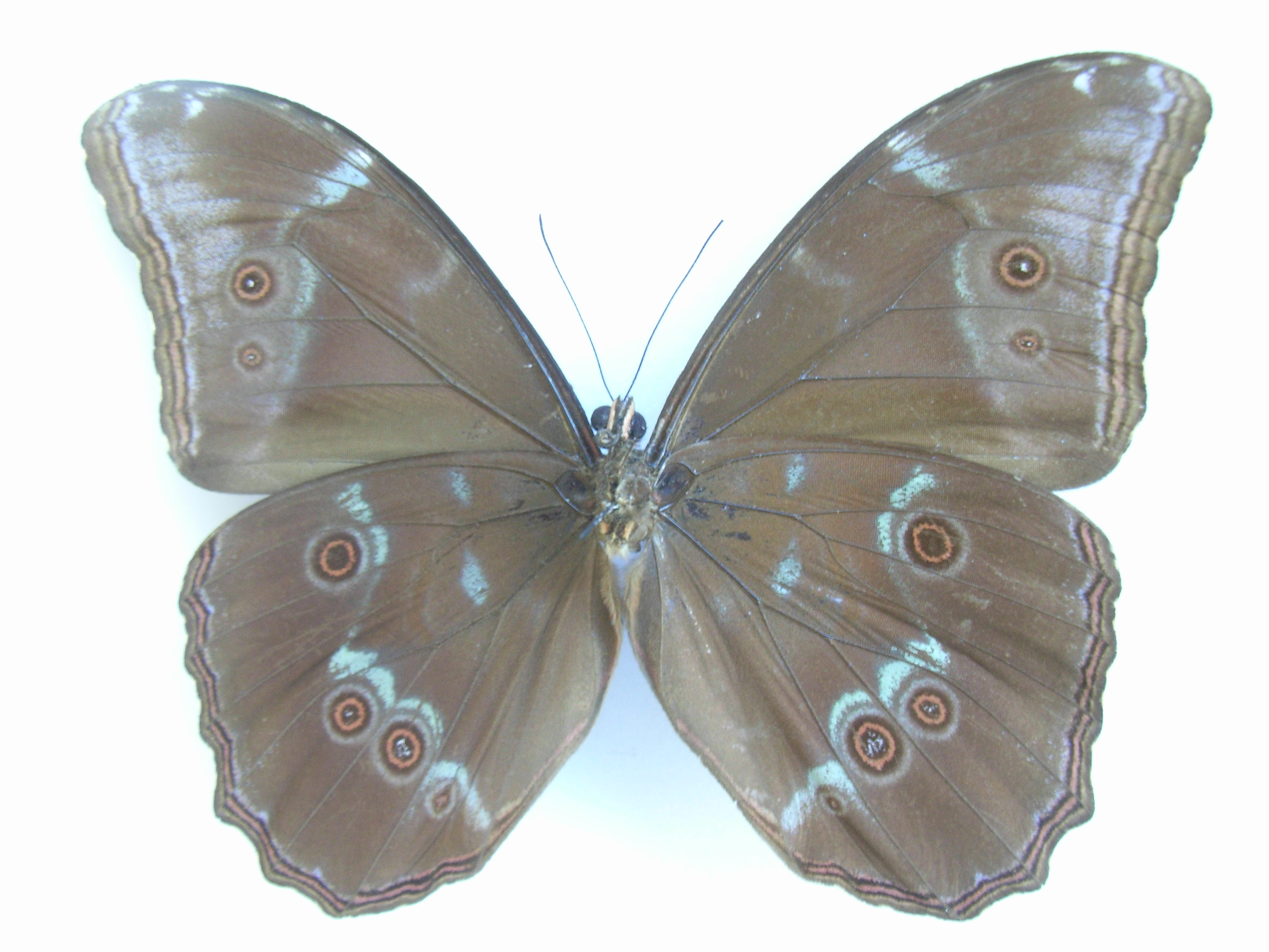 Morpho menelaus Verso